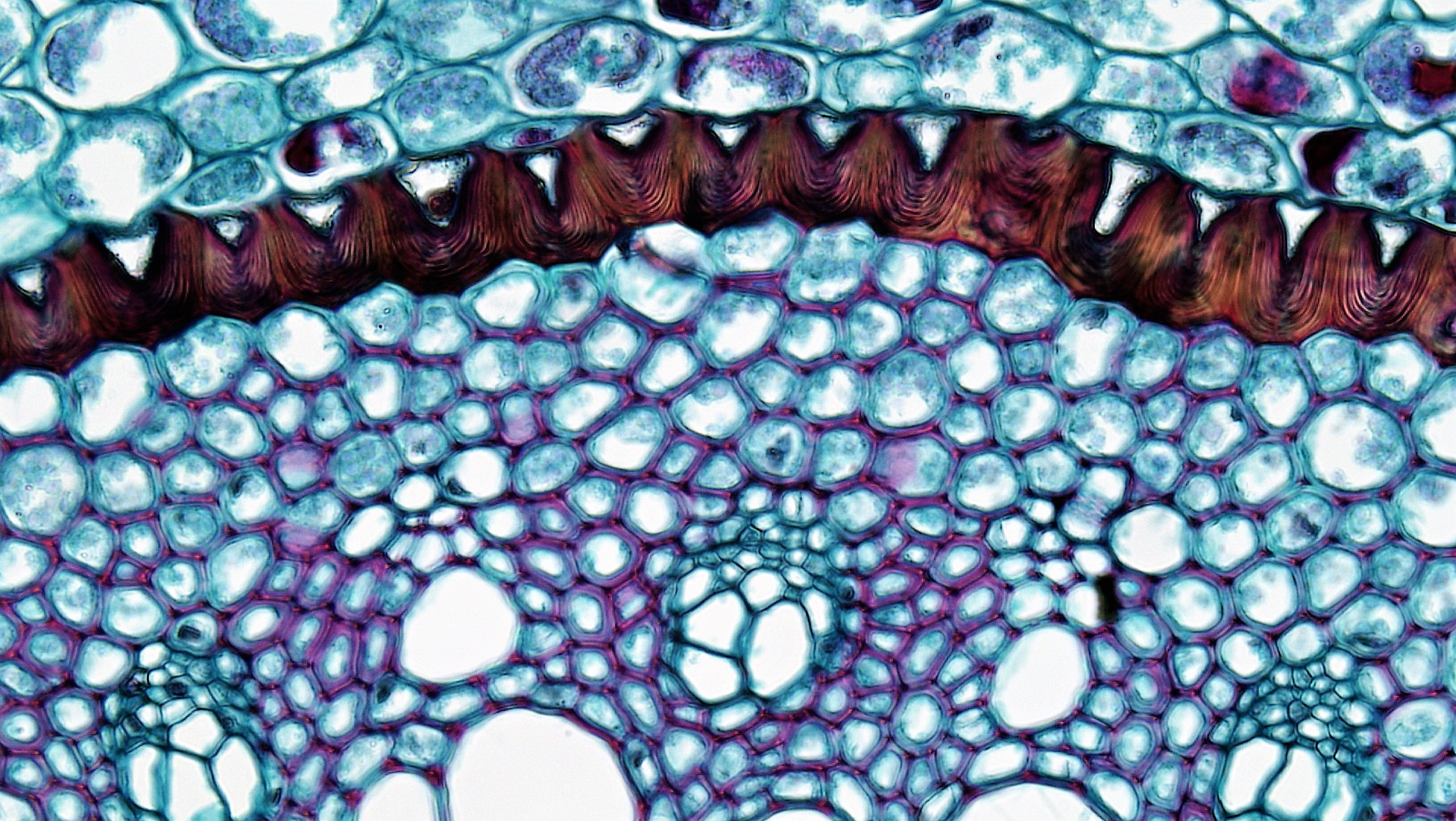 cross section: Smilax root common name: Greenbriar magnification: 400x Berkshire Community College Bioscience Image Library The inmost area of the cortex is bounded by a prominent endodermis of large U-shaped cells whose walls are heavily suberized, marking the Casparian strip. Within the endodermis occasional small passage cells serve to transport of water into the stele. The stele is bound is a pericycle of several layers of thin walled parenchyma cells, often sclerenchymized in older roots.